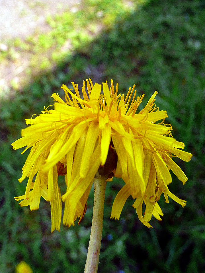 T. platycarpum Dahlst. subsp. maruyamanum (Kitam. ) Morita.(a kind of Japanese dandelions) Japanese name is "oki tanpopo".("Tanpopo" means dandelion)